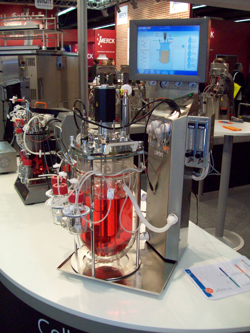 Autoclavable benchtop bioreactor with touchscreen